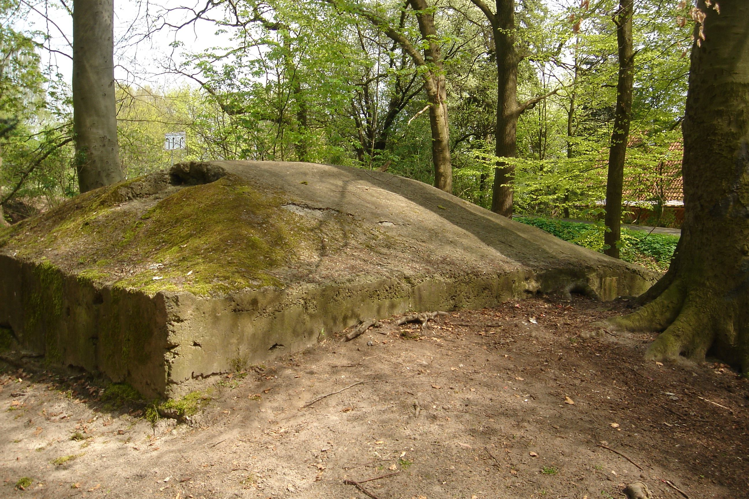 KZ Stöcken remains, Bunker. The KZ Stöcken was a subcamp of KZ Neuengamme.